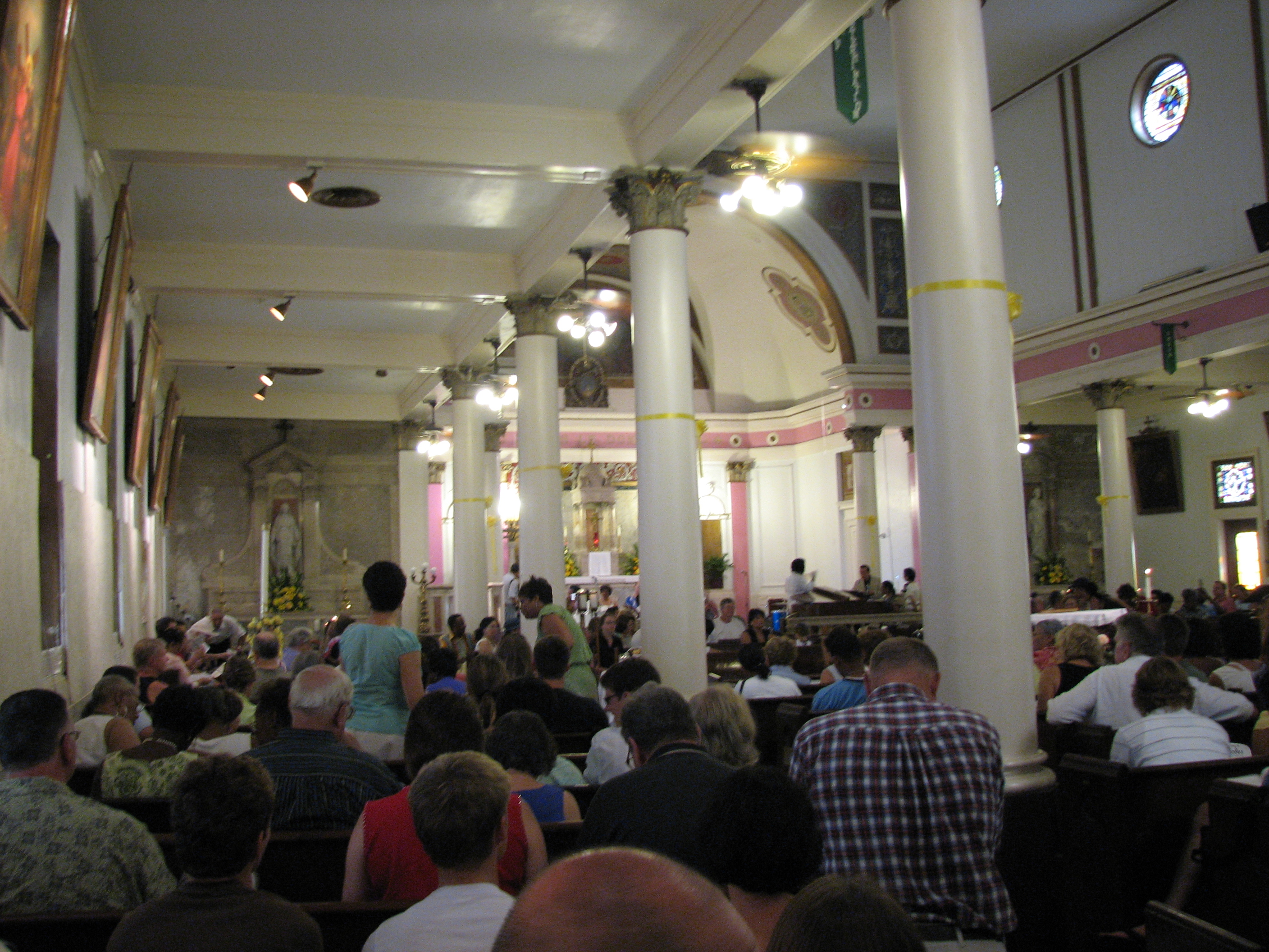 Interior of St. Augustine Church, New Orleans, during the "Jazz Mass".